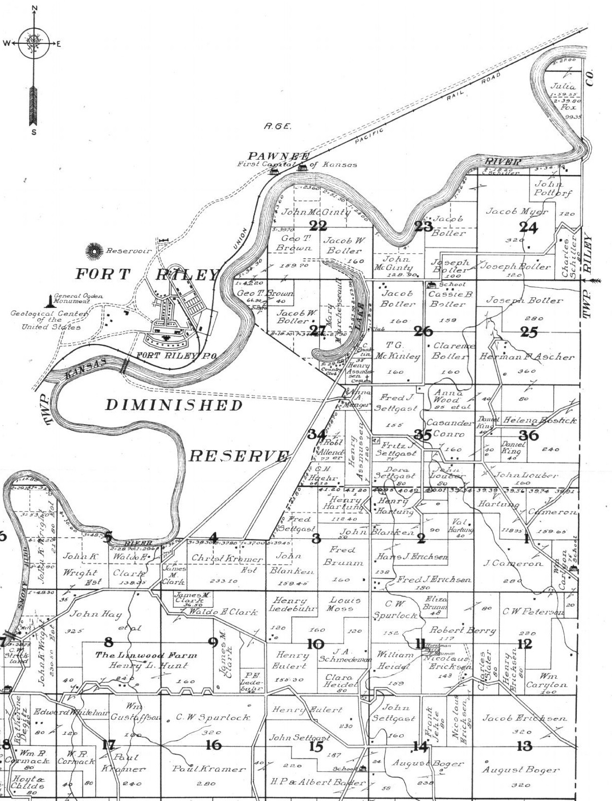 Plats of Northern Jefferson Township, Geary County, Kansas, 1909. Shows part of Fort Riley Diminished Reserve, and the ghost town of Pawnee, site of the First Territorial Capitol of Kansas, across Kansas River. Also notes "Geological Center of United States" at the time, but that is incorrect.